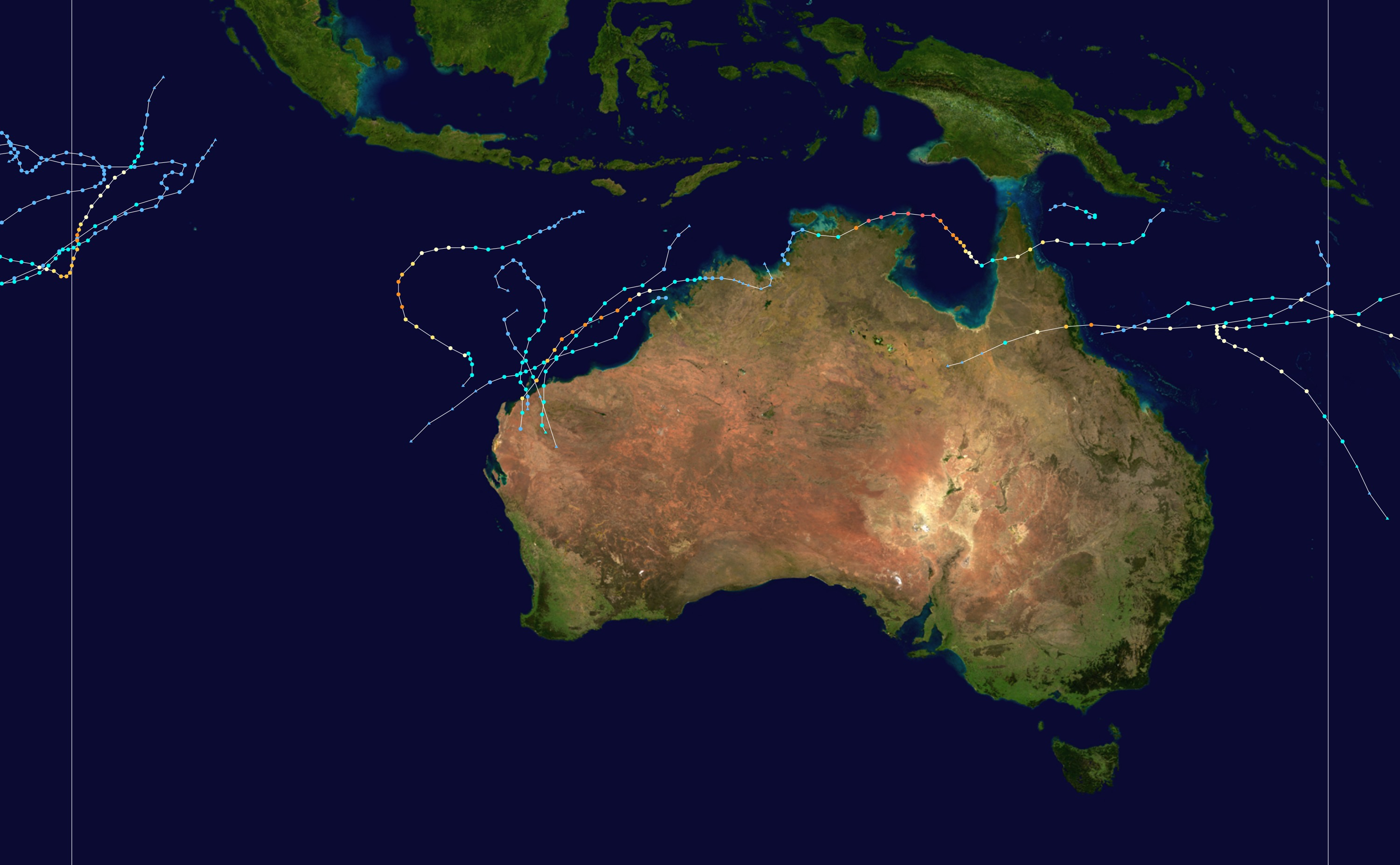 This map shows the tracks of all tropical cyclones in the 2005-06 Australian region cyclone season. The points show the location of each storm at 6-hour intervals. The colour represents the storm's maximum sustained wind speeds as classified in the Saffir-Simpson Hurricane Scale (see below), and the shape of the data points represent the type of the storm. Saffir–Simpson hurricane wind scale Tropical depression≤38 mph≤62 km/h Category 3111–129 mph178–208 km/h Tropical storm39–73 mph63–118 km/h Category 4130–156 mph209–251 km/h Category 174–95 mph119–153 km/h Category 5≥157 mph≥252 km/h Category 296–110 mph154–177 km/h Unknown Storm typeTropical cycloneSubtropical cycloneExtratropical cyclone / Remnant low / Tropical disturbance